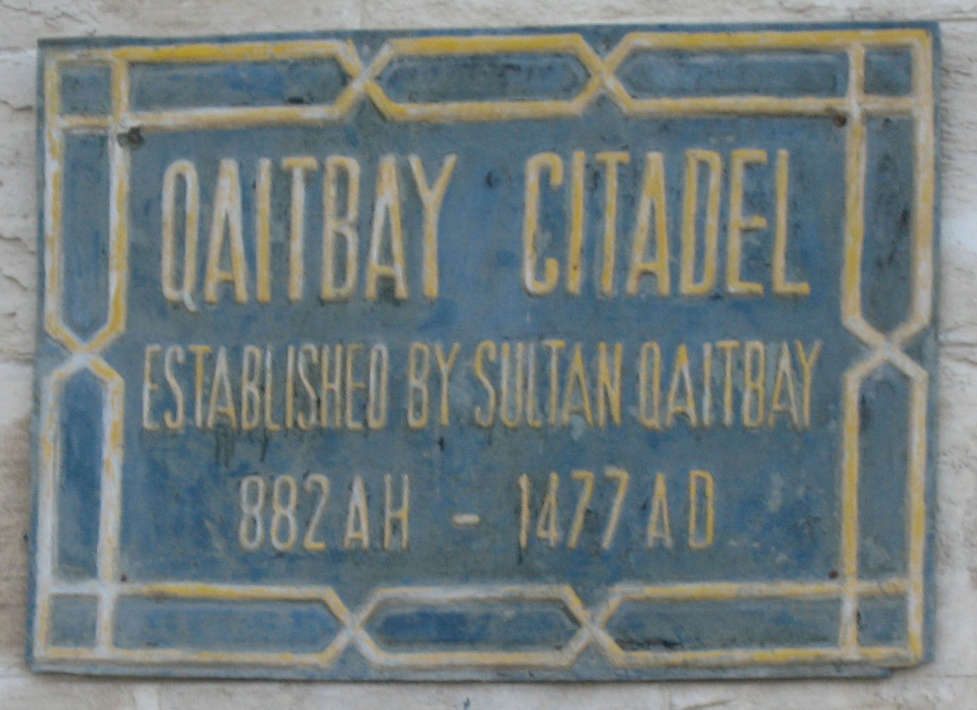 Nameplate on wall of the Qaitbay Citadel in Alexandria, Egypt.